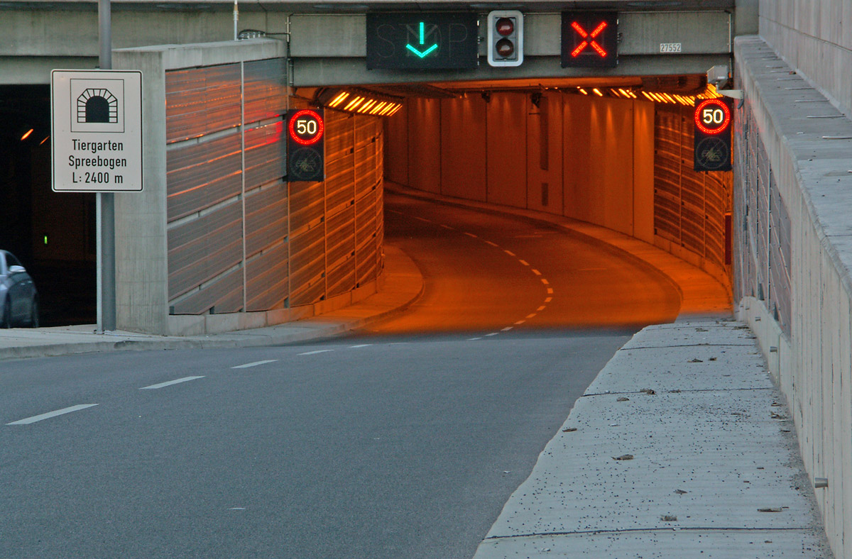 North entrance of Tunnel Tiergarten Spreebogen in Berlin.